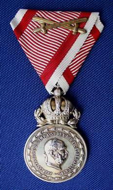 Nagy Katonai Aranyérem Kardokkal